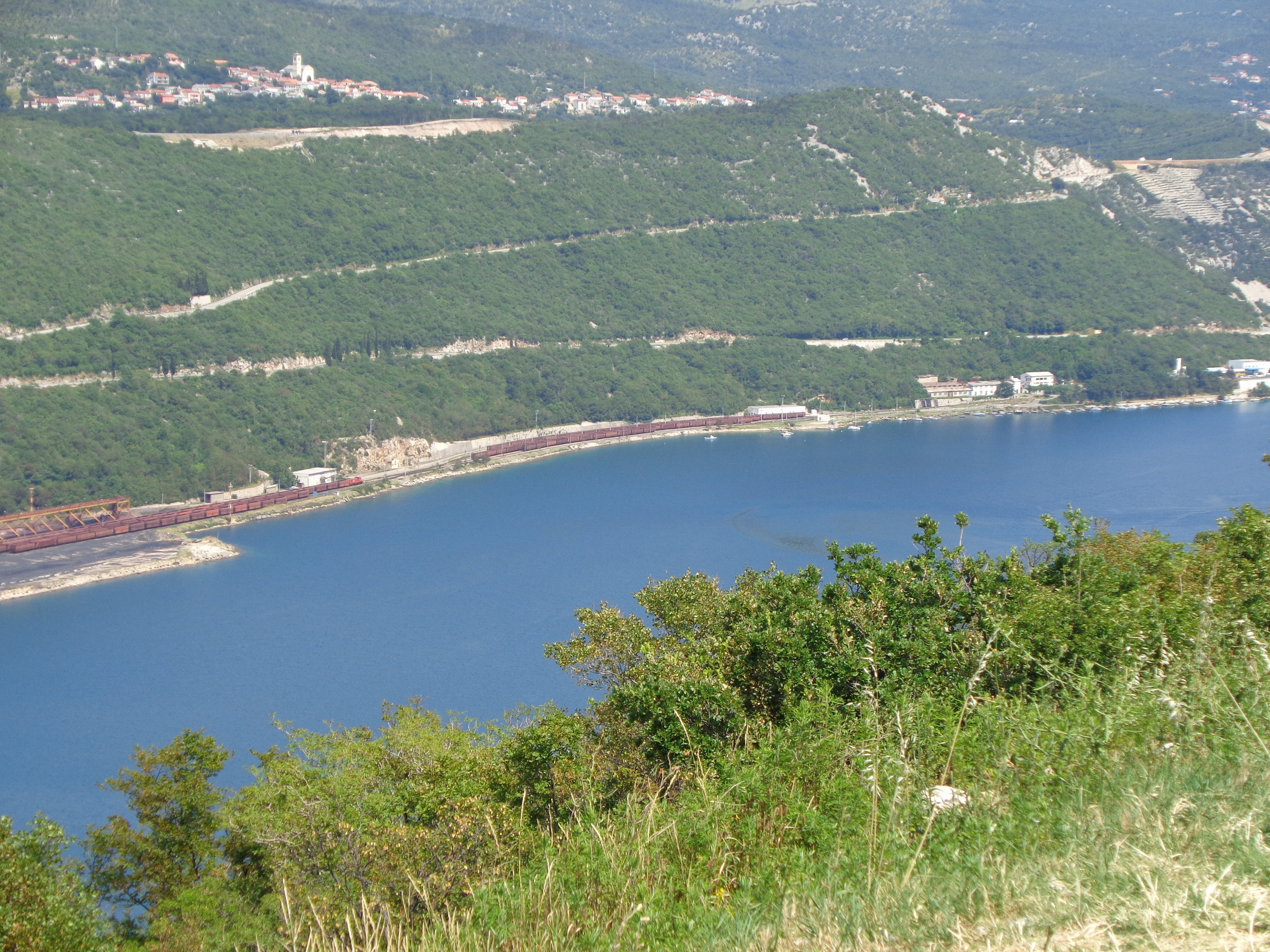 Bay of Bakar, Primorje-Gorski Kotar County, Croatia - west view